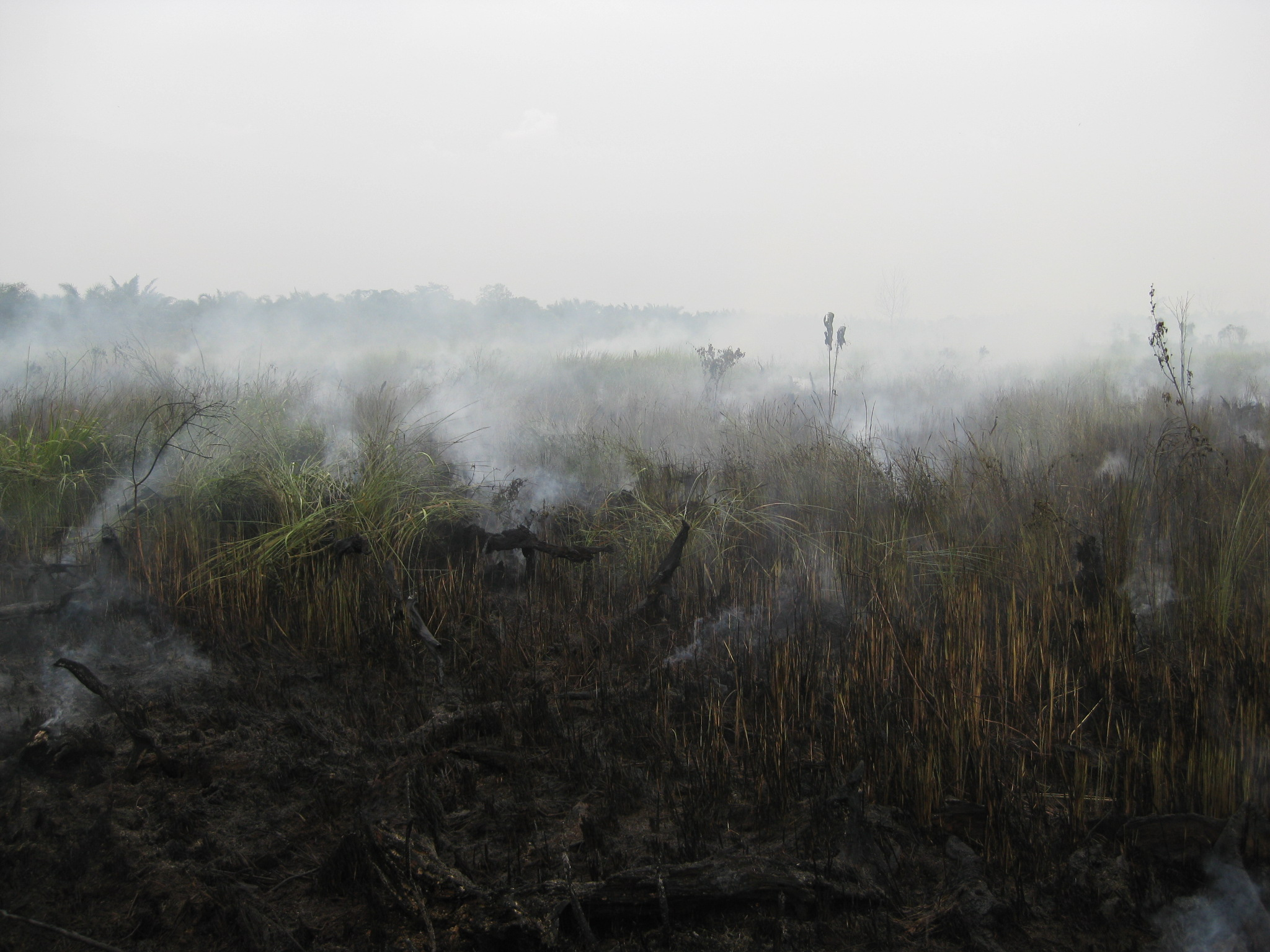 This was a 2-ha peat fire that occurred near the Raja Musa Forest Reserve in Selangor, Malaysia. Note that there is a large amount of smoke without any open flames. This is because the fires are below the surface, where the peat is smouldering.